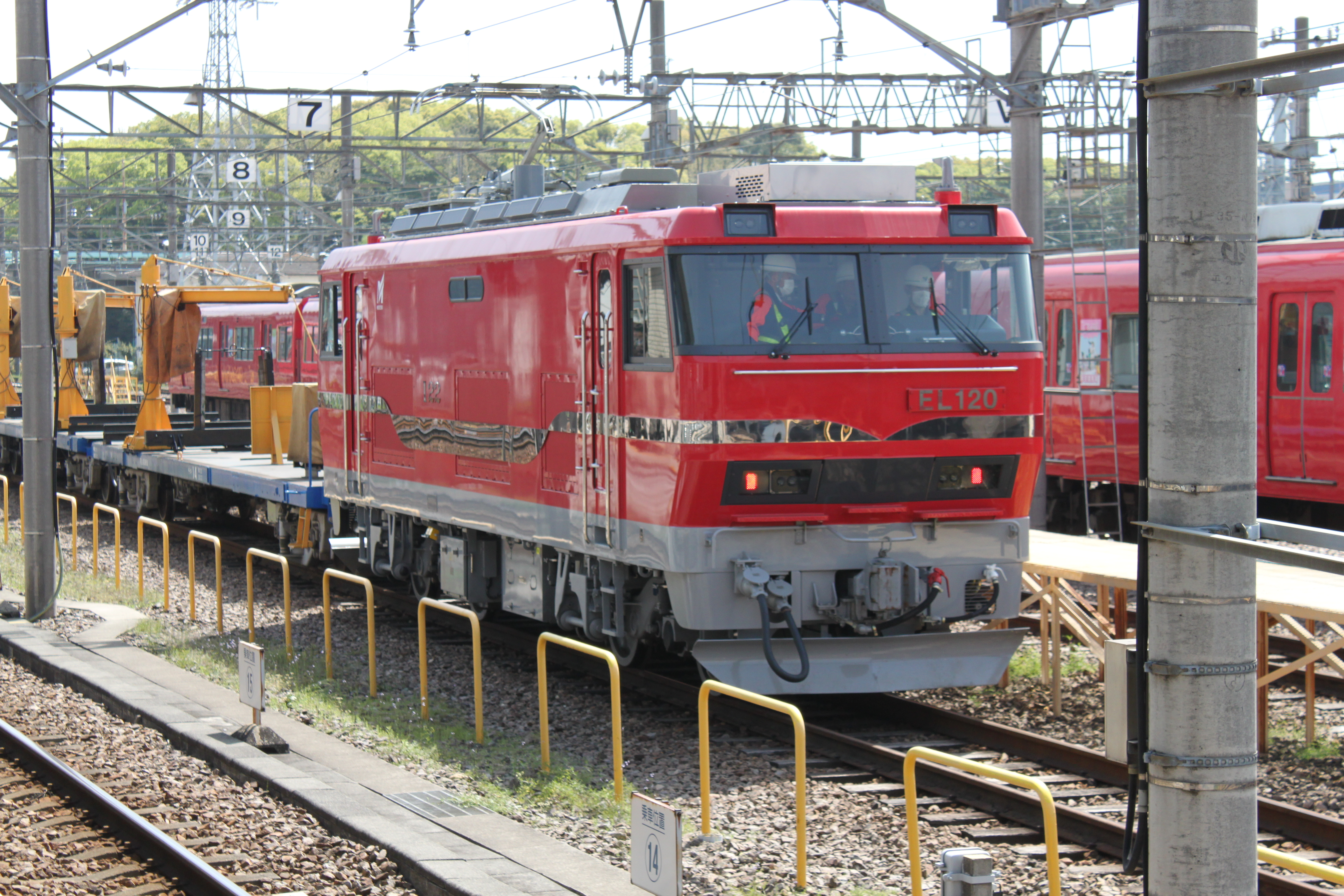 Meitetsu Class EL120 electric locomotive 122 in the yard next to Ōe Station in Aichi Prefecture, Japan